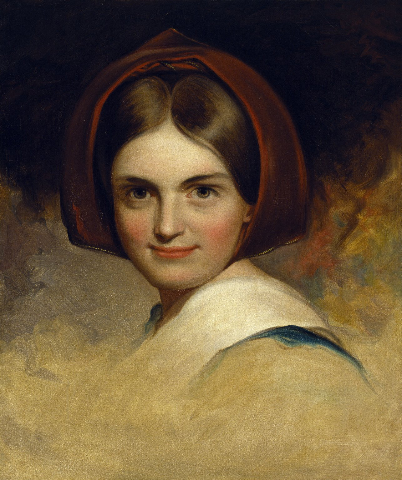 an unfinished portrait of Charlotte Cushman